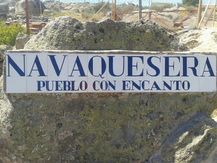 cartel de Navaquesera, a la entrada del pueblo